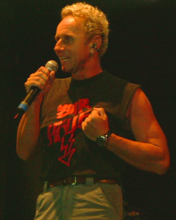 Klaus Eberhartinger, lead singer of EAV at the concert in Bregenz, Vorarlberg (Austria)